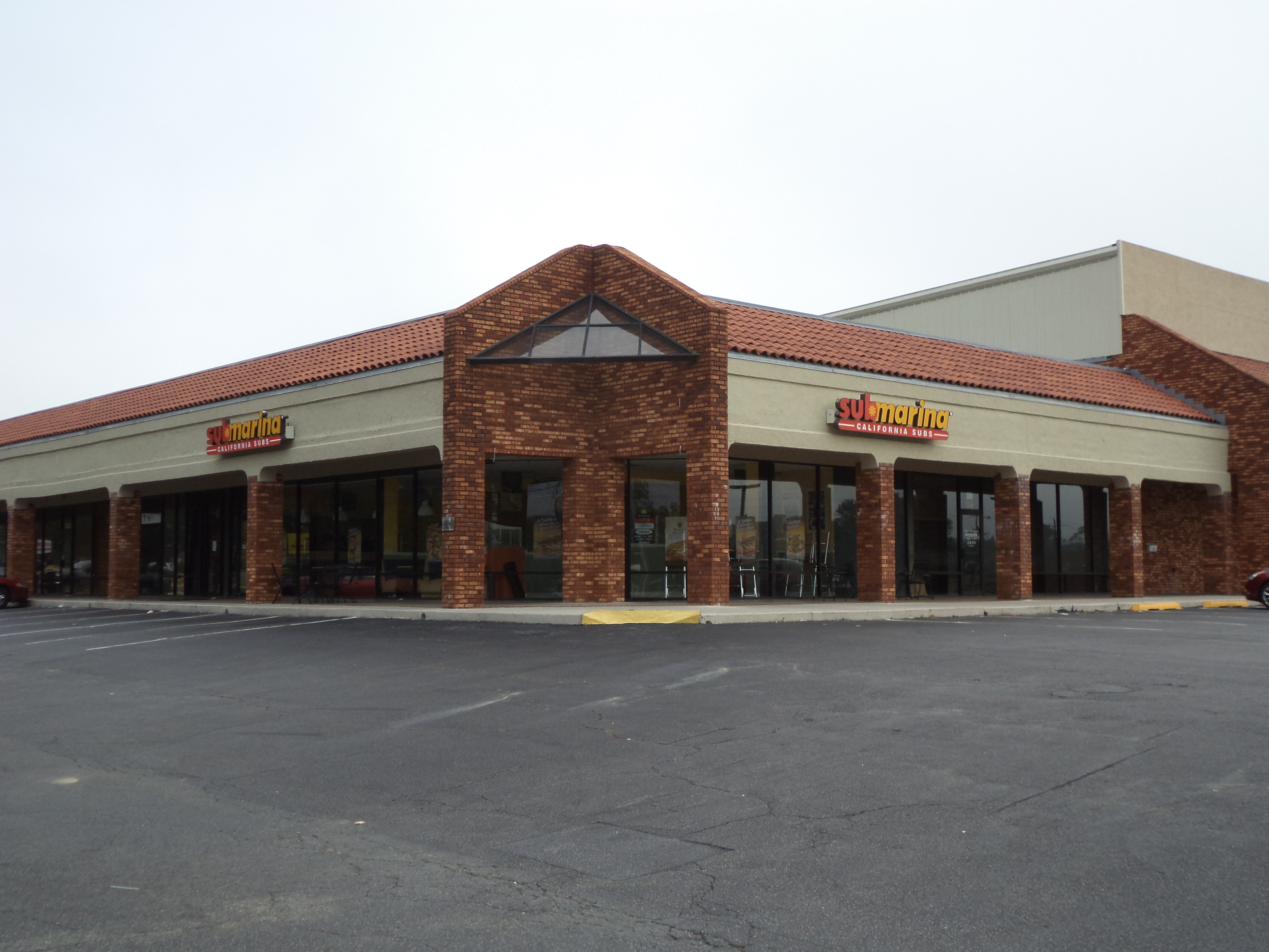 Submarina, 104 Northside Dr, Valdosta, Lowndes County, Georgia. This location closed December, 2014